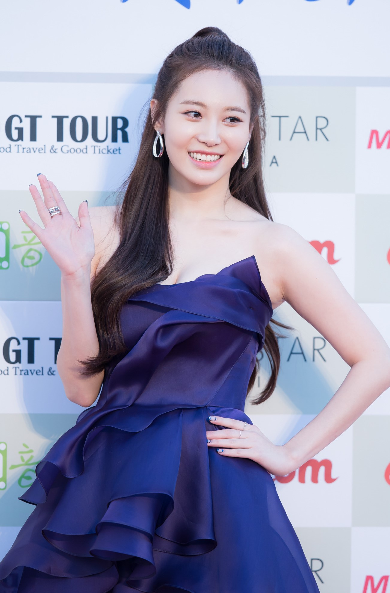 Yura on the red carpet of the Gaon Chart K-pop Awards, on February 17, 2016.